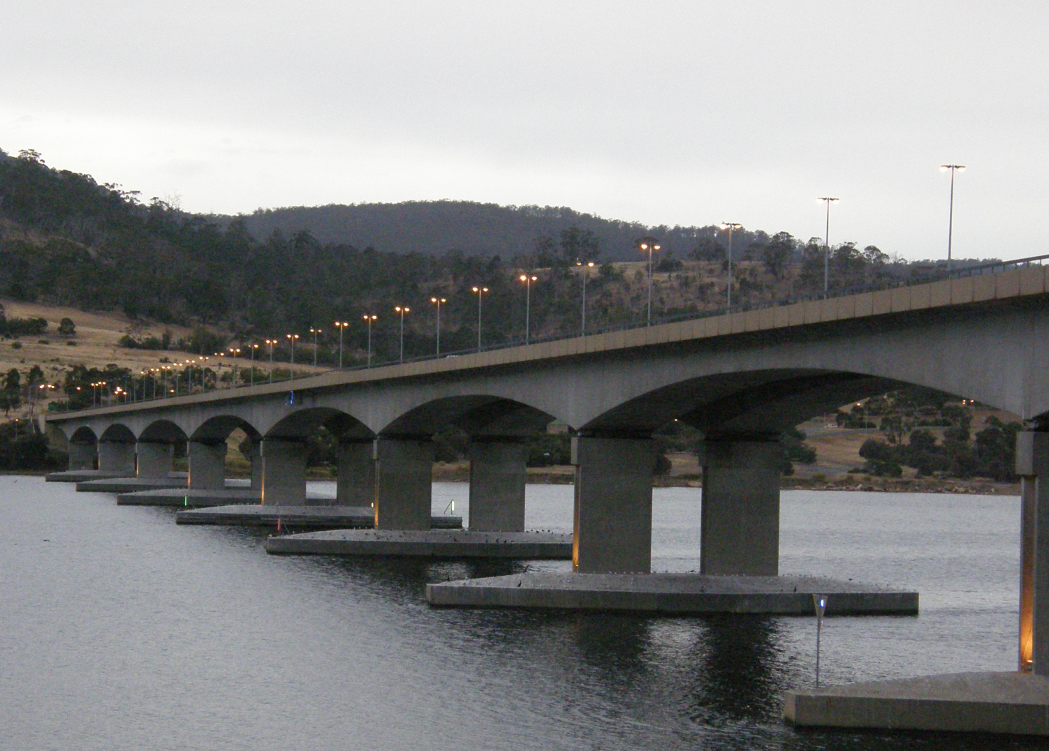 Picture of the Bowen Bridge, taken in the early hours of the morning from the northern side of Goodwood Road, on the western side of the Derwent River.